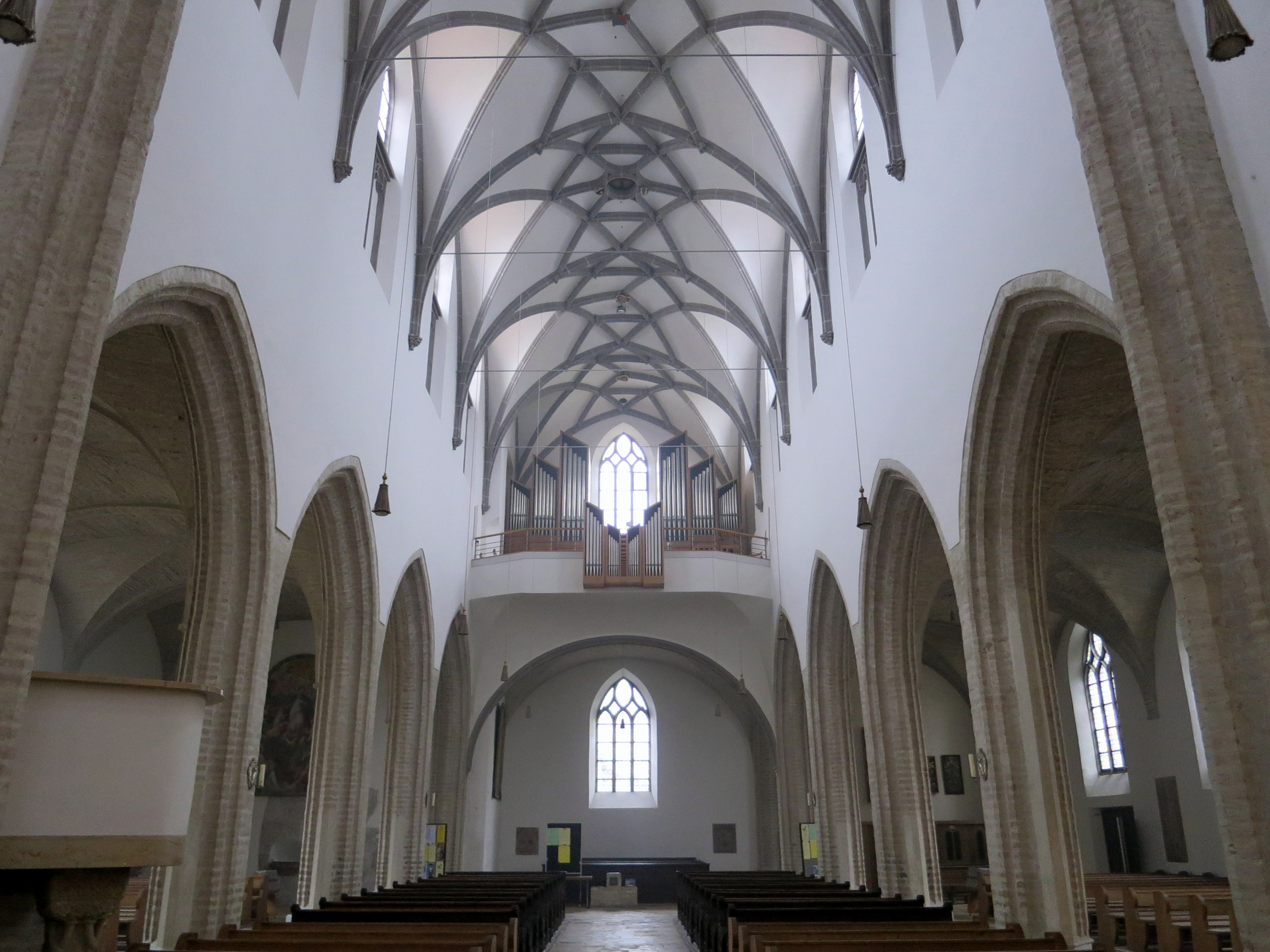 St. Georg is a former church of a monastery, nowadays a parish church